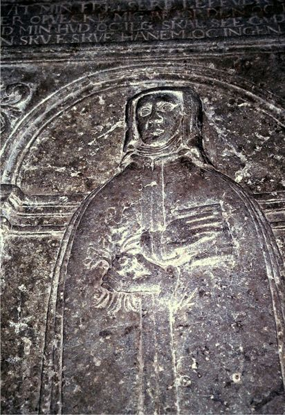 Maribo Cathedral